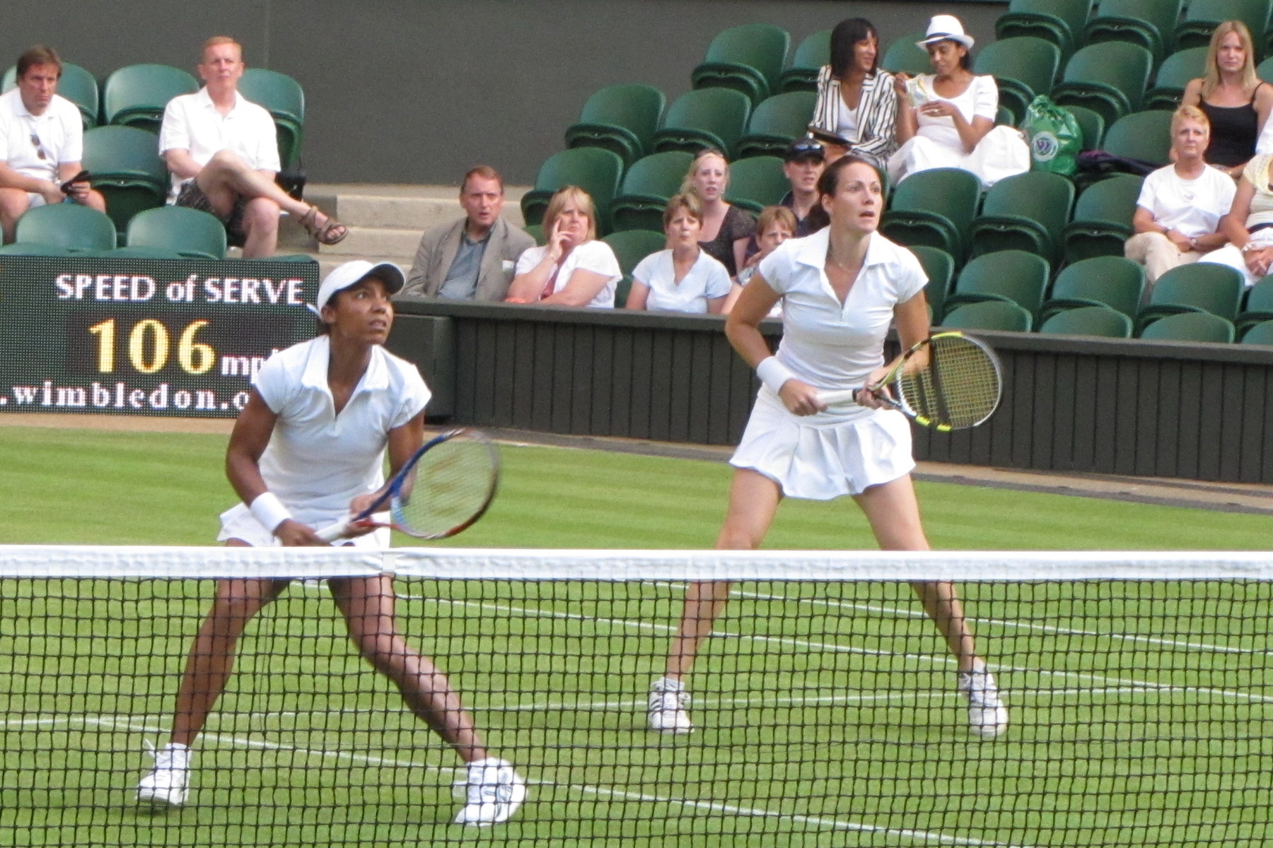 Raquel Kops-Jones (left), Sarah Borwell (right), 2010 Wimbledon Championships